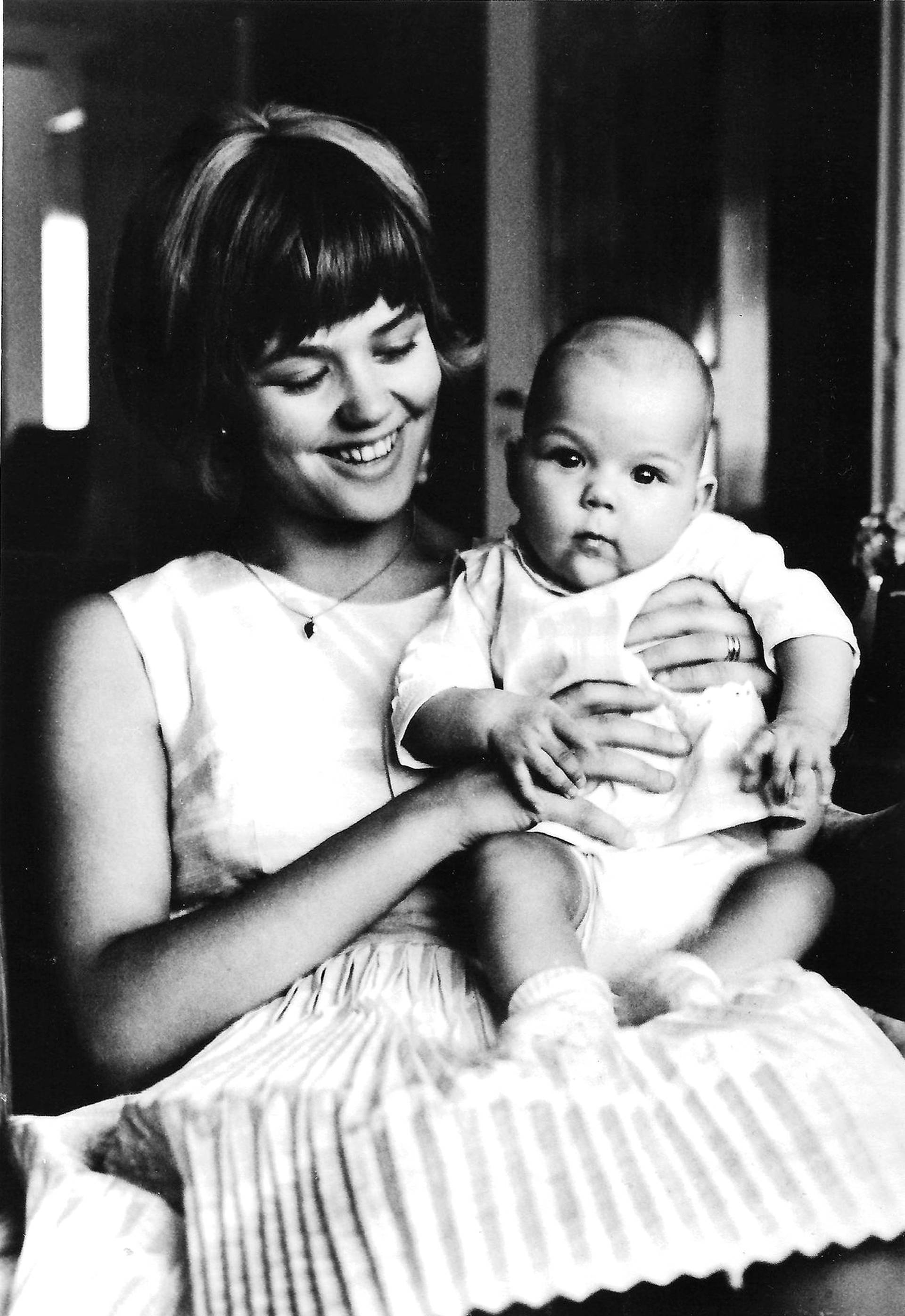 Photograph of the Finnish playwright and director Ritva Holmberg (1944–2014) with her daughter Annina (1964–).